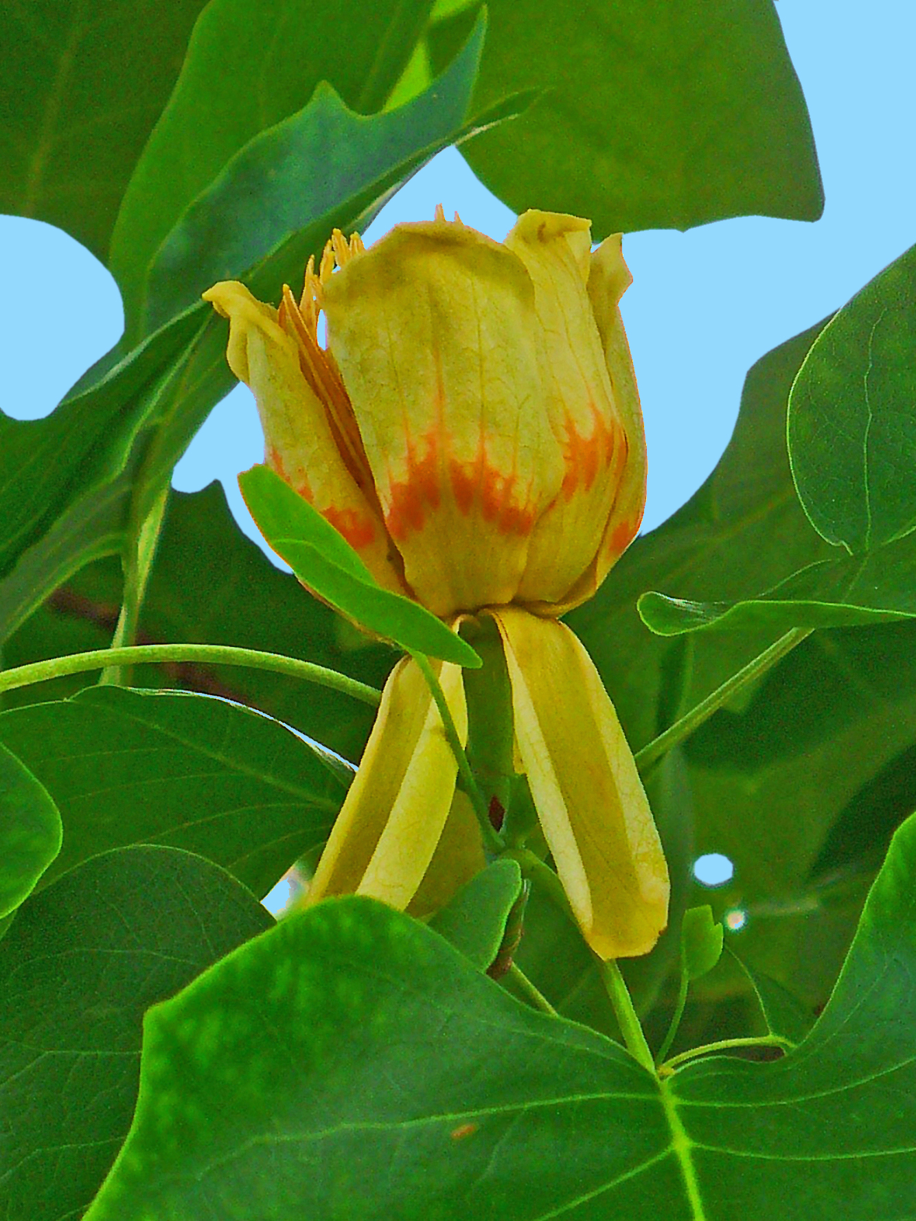 Liriodendron tulipifera, Magnoliaceae, Tulip Tree, Tulip Poplar, Yellow Poplar, flower; Karlsruhe, Germany. The bark is used in homeopathy as remedy: Liriodendrom tulipifera (Lir-t.)